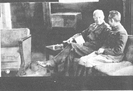 Sun Liren and General Eisenhower.